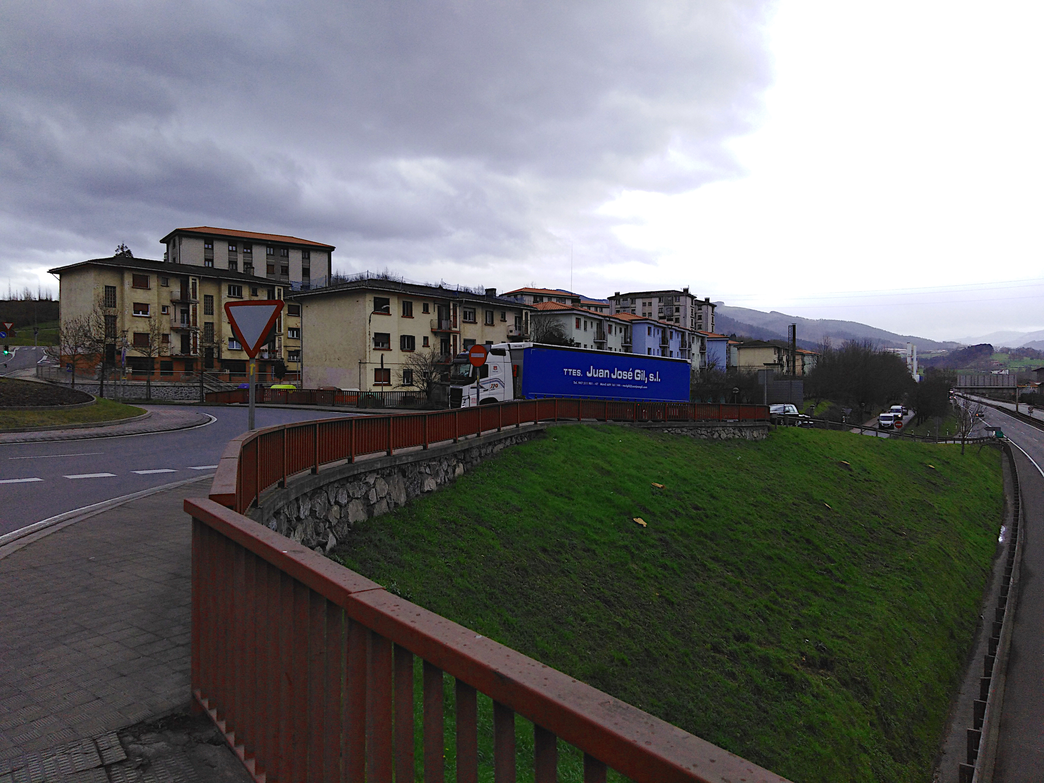 Ihurre, Olaberria, Gipuzkoa, Basque Country